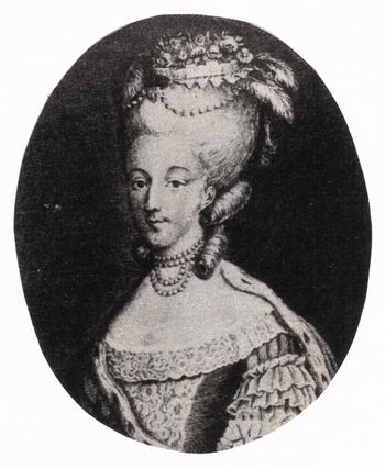 Portrait of Princess Maria Theresa of Savoy (1756-1805)